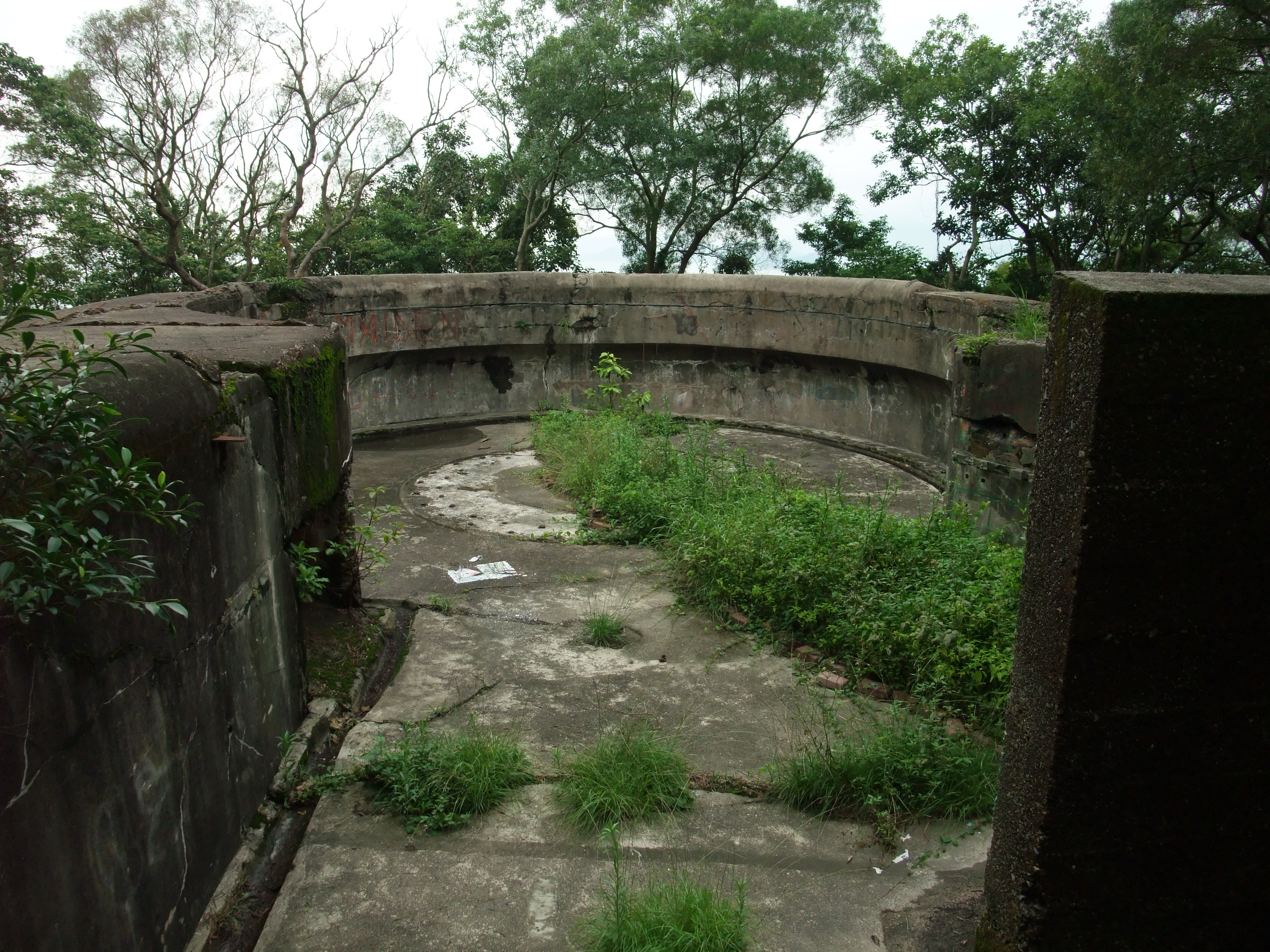 Photo of Mount Davis Battery